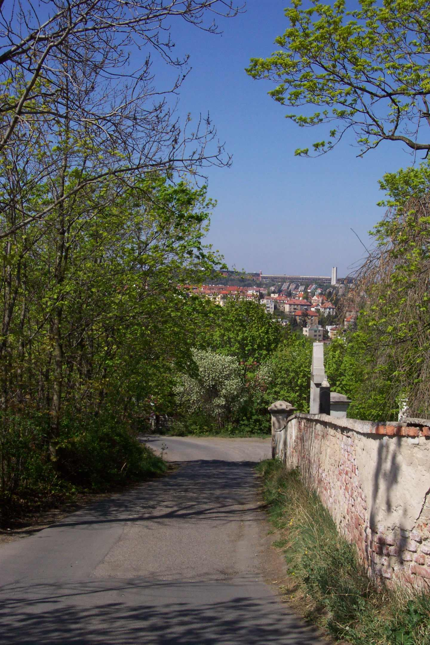 Prague-Radlice, Výmolova street along the cemetery.